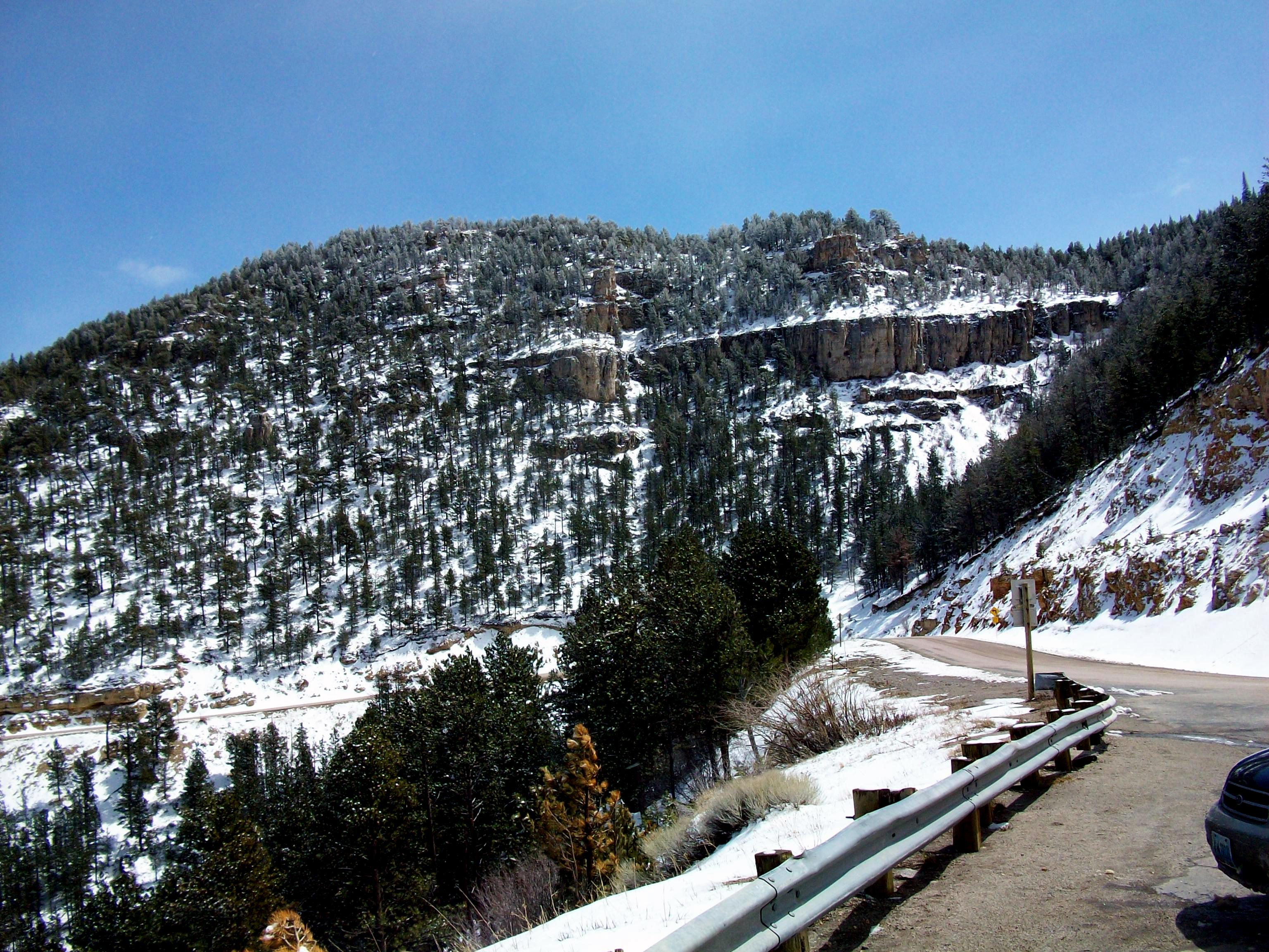 Casper Mountain Road, at a view site.